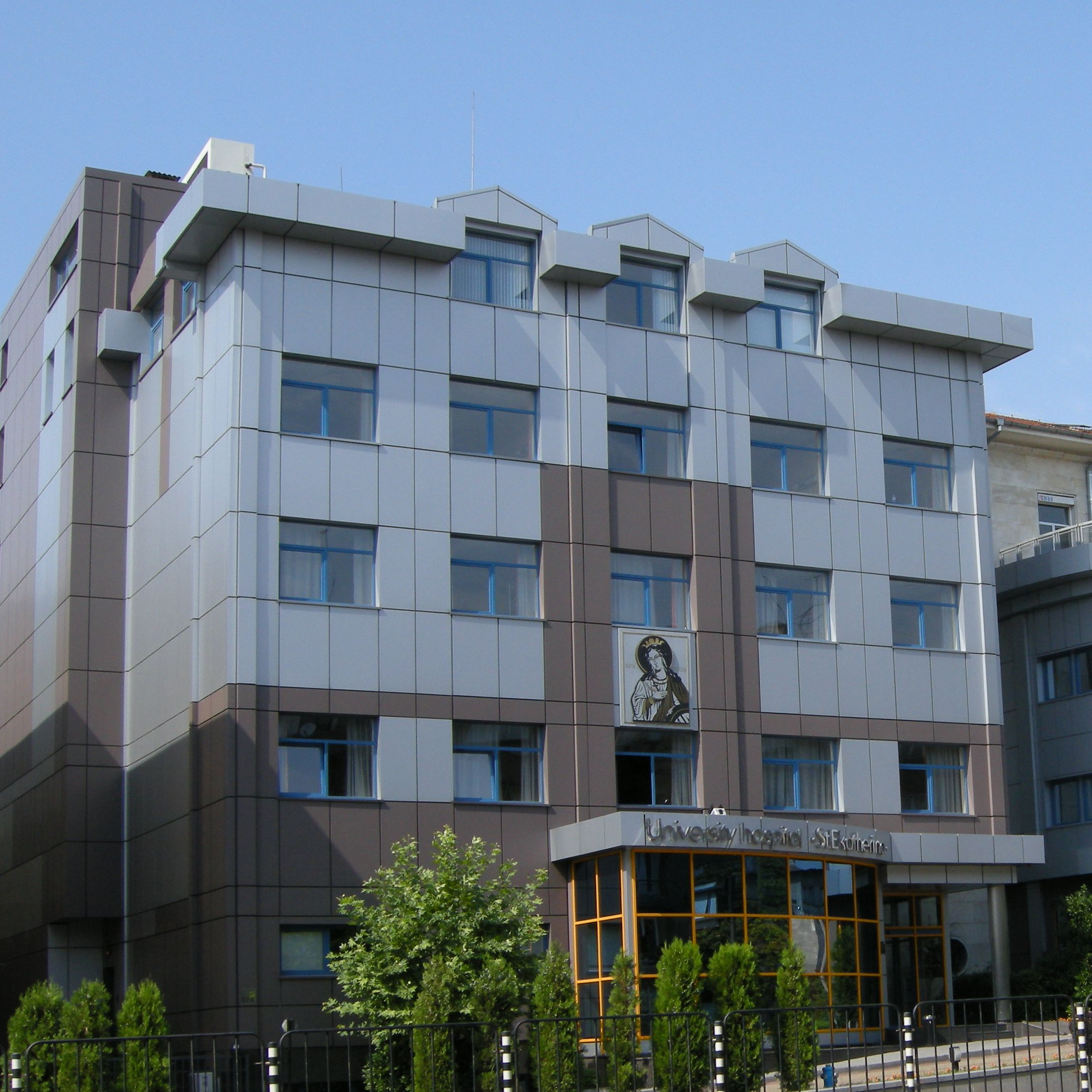 "St. Ekatherina" University Hospital in Sofia, Bulgaria.